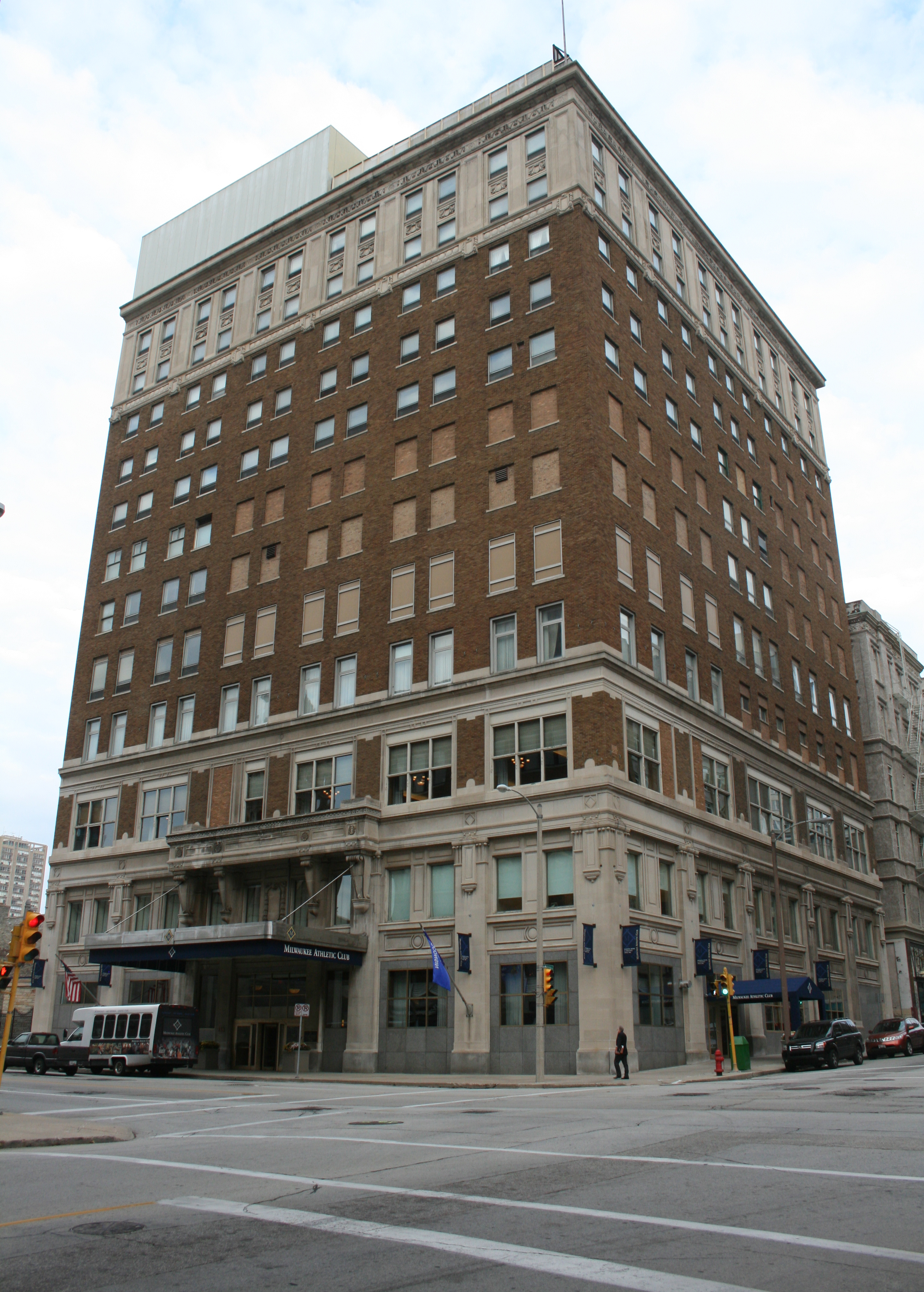 The Milwaukee Athletic Club, built in 1917. Located at 758 N Broadway. 20-one bedroom apartments are being built on the 12th floor. Hotel rooms are located on the 10th and 11th floors, offices on the 9th. Assessment records indicate there are also hotel rooms on the 8th floor.